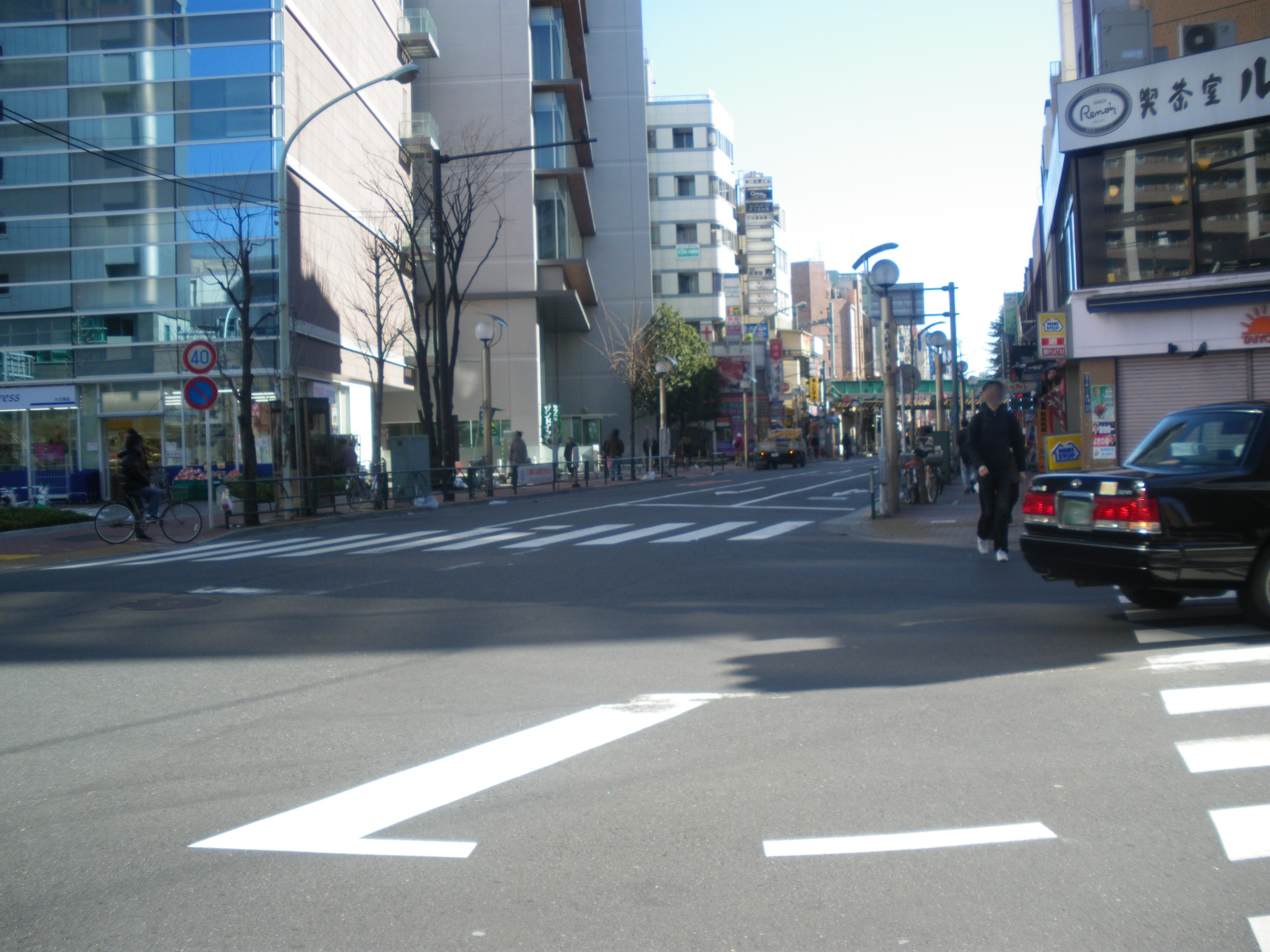 A photo of Kitashinjuku 1-chome intersection, which is the intersection of Okubo Dori Street and Otakibashi-Dori Street,located in Shinjuku-ku,Tokyo,Japan.